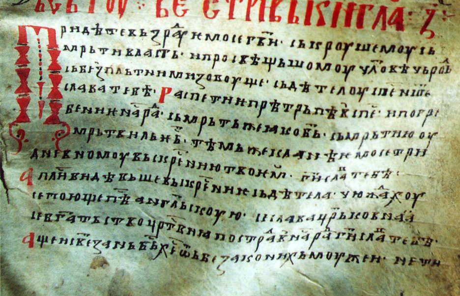 Razdavicki sbornik